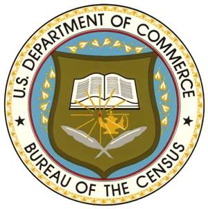 Seal of the United States Census Bureau. The blazon is defined here as: On a shield an open book beneath which is a lamp of knowledge emitting rays above in base two crossed quills. Around the whole a wreath of single leaves, surrounded by an outer band bearing between two stars the words ‘‘U.S. Department of Commerce’’ in the upper portion and ‘‘Bureau of the Census’’ in the lower portion, the lettering concentric with an inner beaded rim and an outer dentilated rim